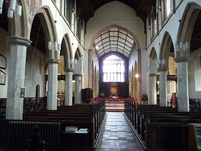 St Michael, Framlingham